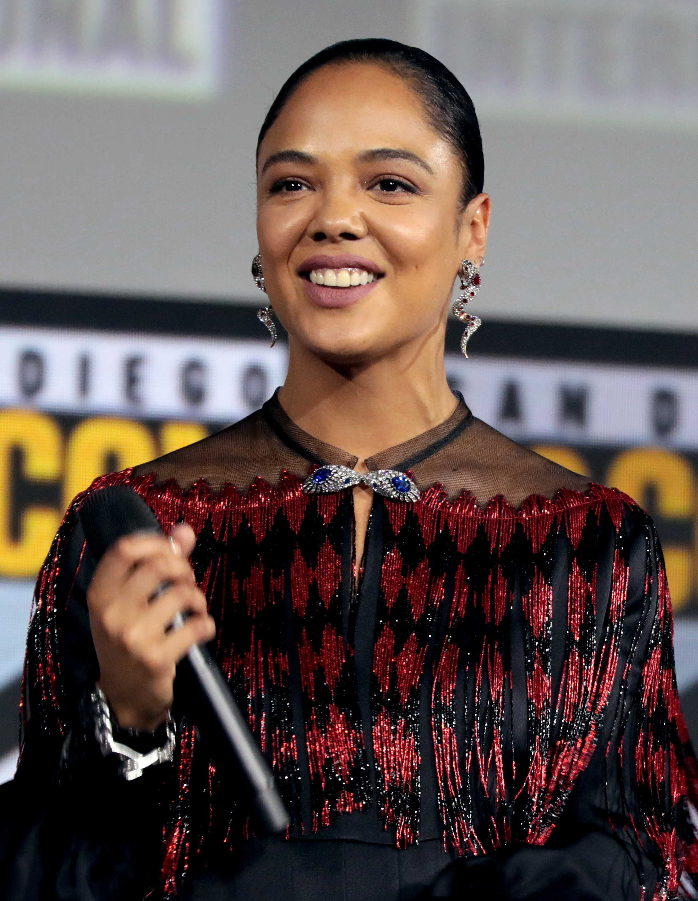 Tessa Thompson speaking at the 2019 San Diego Comic-Con International in San Diego, California.